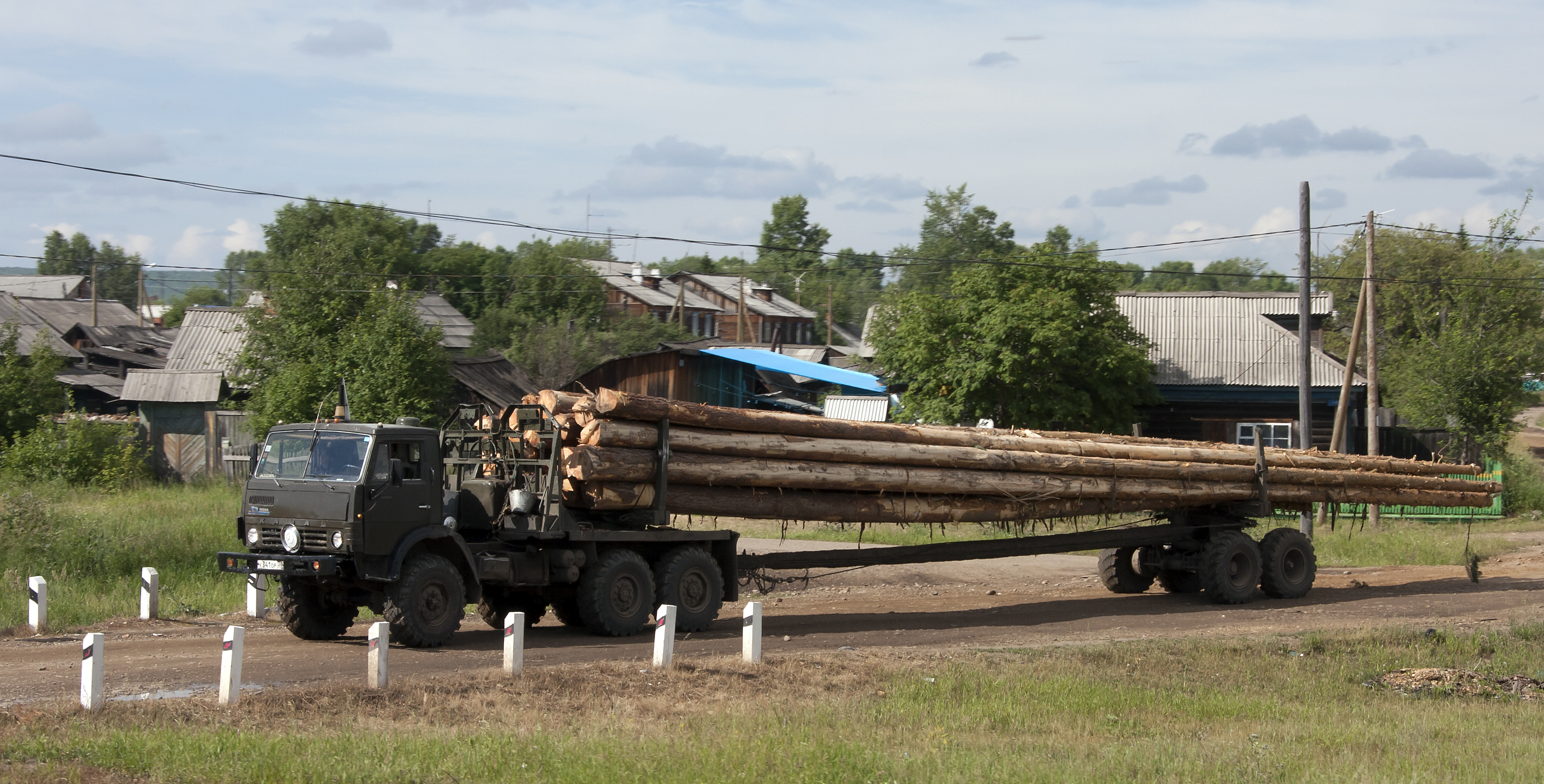 Lumber transport in small Siberian town Yurty in Russia 2010.